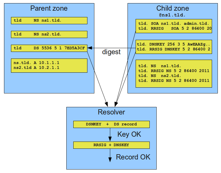 DNSSEC resource record check using DNSKEY/DS records